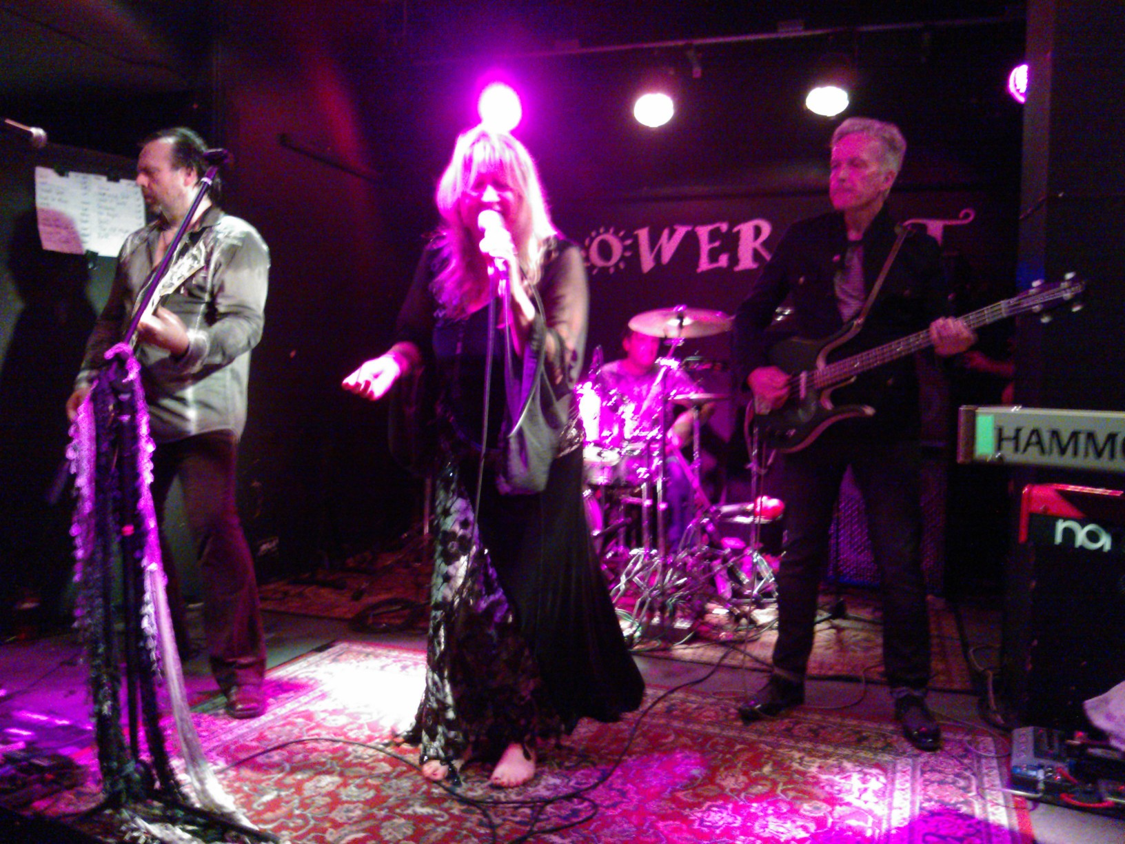 Deborah Bonham Playing at the Flowerpot Derby 4 October 2013